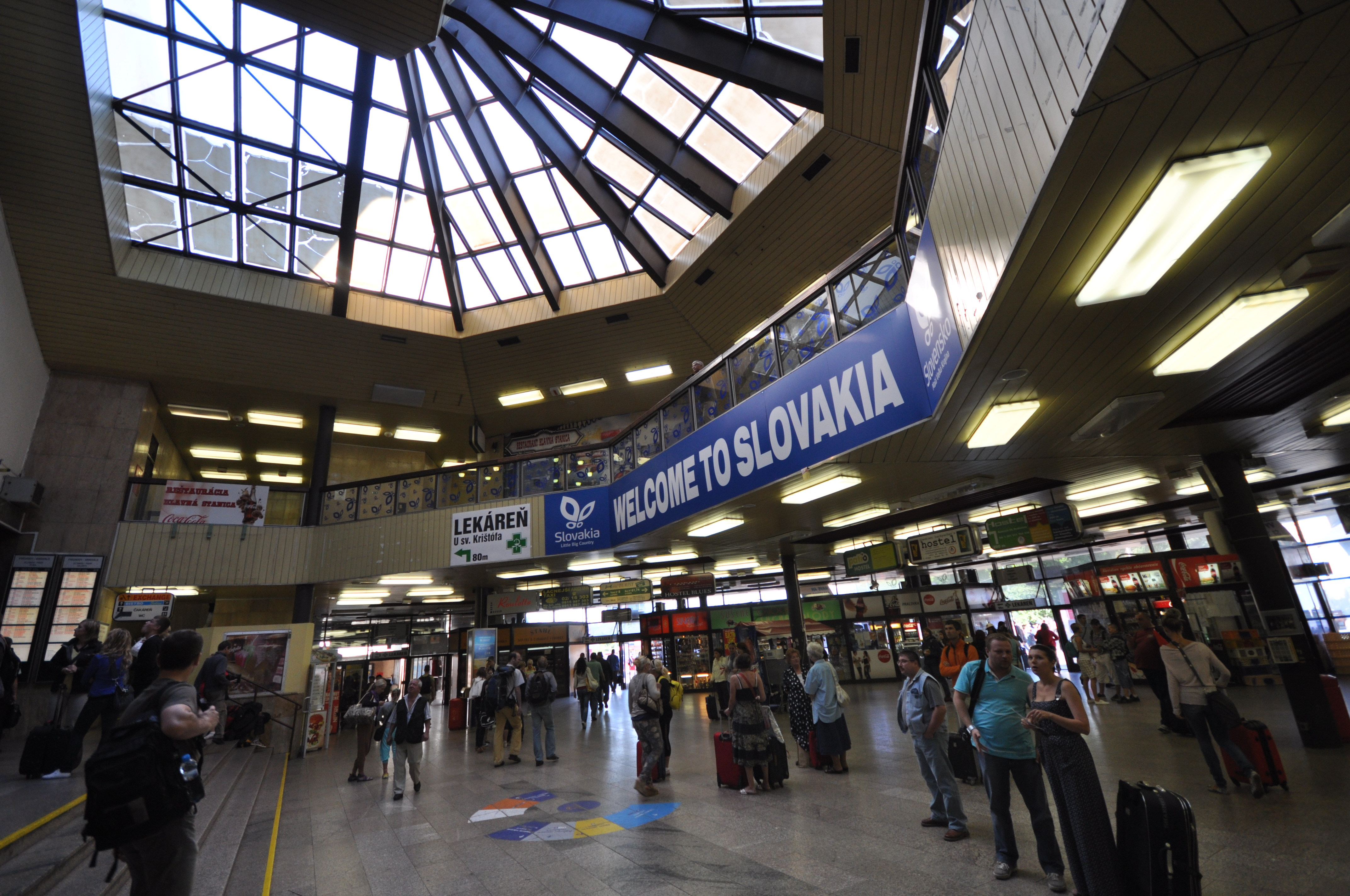 Bratislava hlavná stanica is the main railway station in Bratislava, Slovakia. It is located near Šancová street, around 1 km or a 15 min walk north from the Old Town. Trains from this station depart to Germany, Austria, the Czech Republic, Hungary, Serbia, Croatia (in summer), Poland and the rest of Slovakia